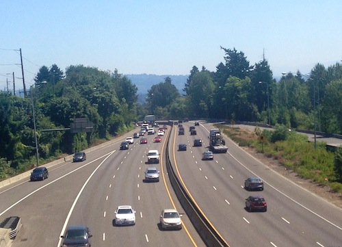 View north to the Terwilliger curves from Terwilliger Boulevard.